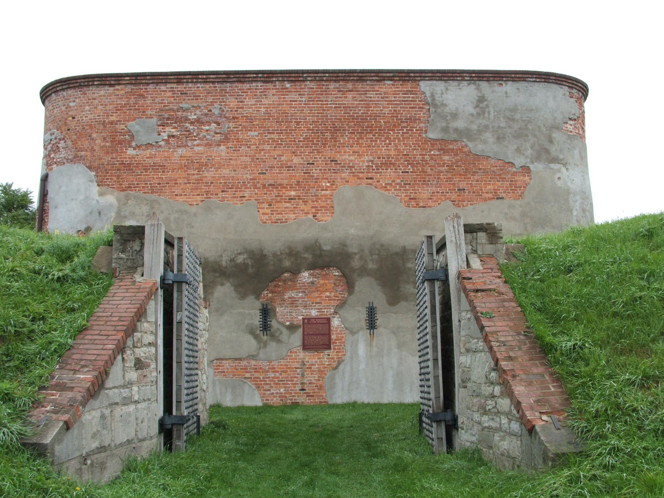 Entrance to Fort Mississauga, Niagara on the Lake, Ontario